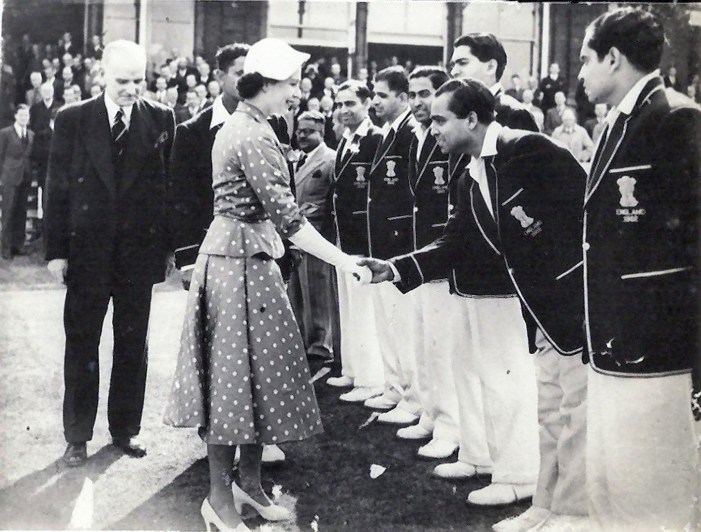 Probir Sen shakes hands with Queen Elizabeth II at Lord's Cricket Ground in London